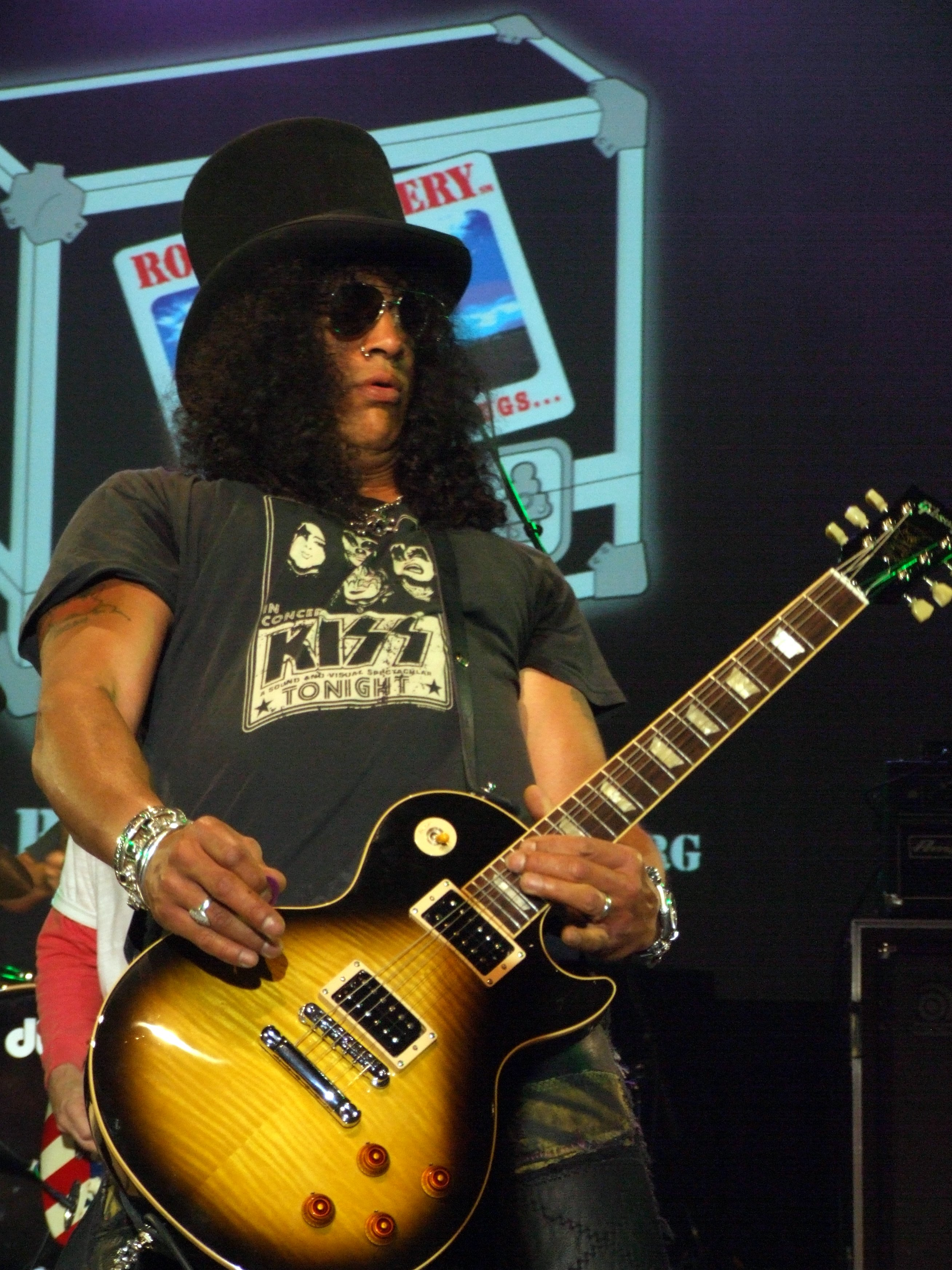 Slash playing a show with Velvet Revolver